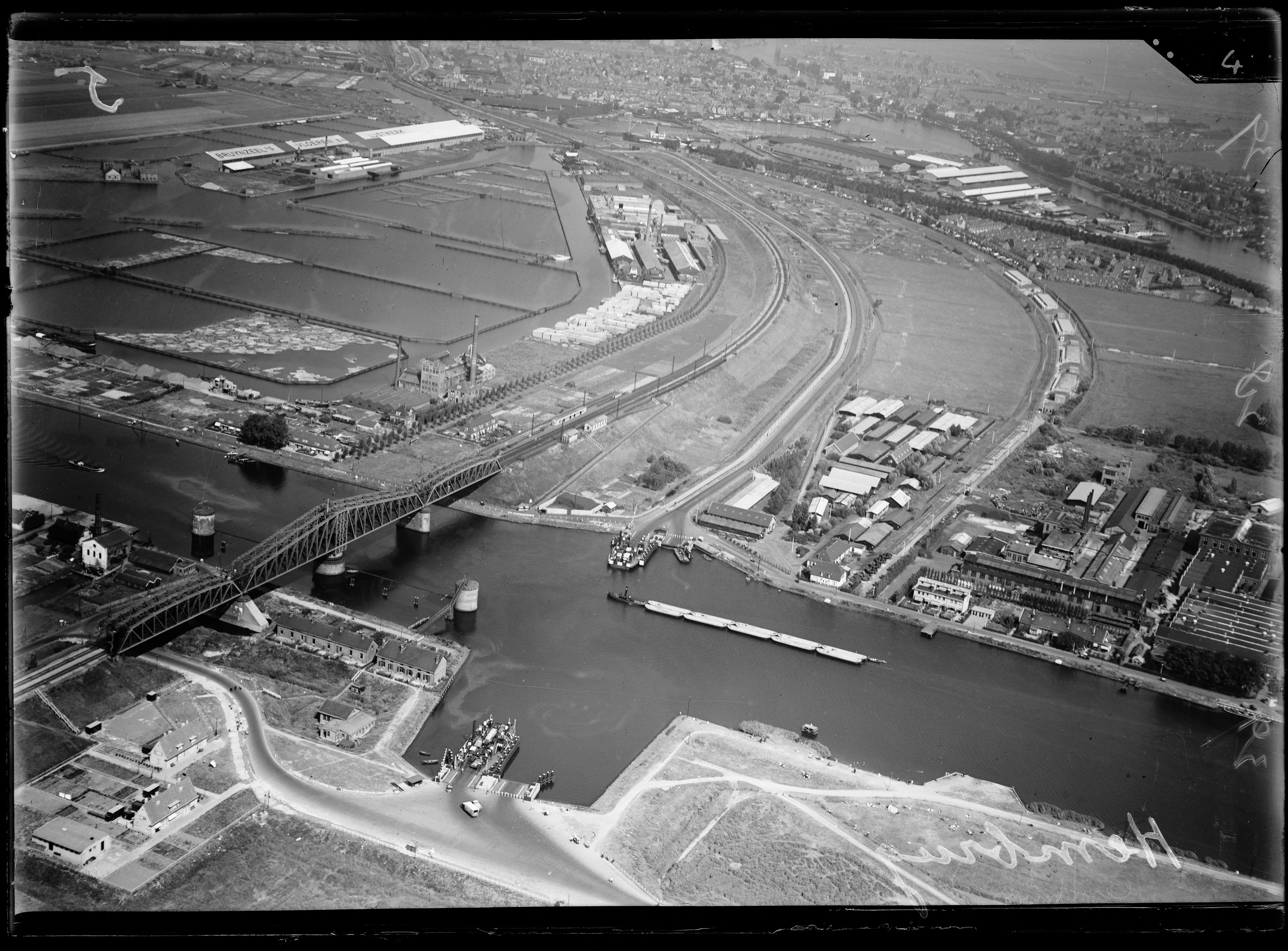 Aerial photograph of Hembrug, The Netherlands